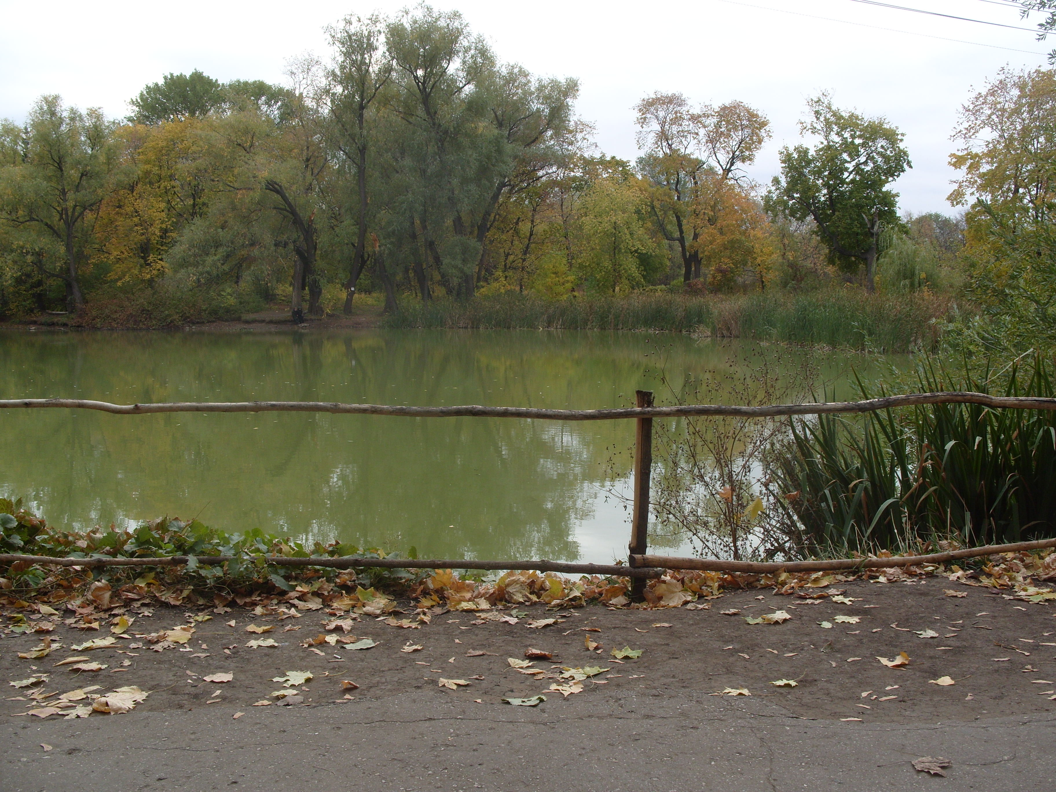 Botanical Garden of Samara State University. View on the Nizhny pond.